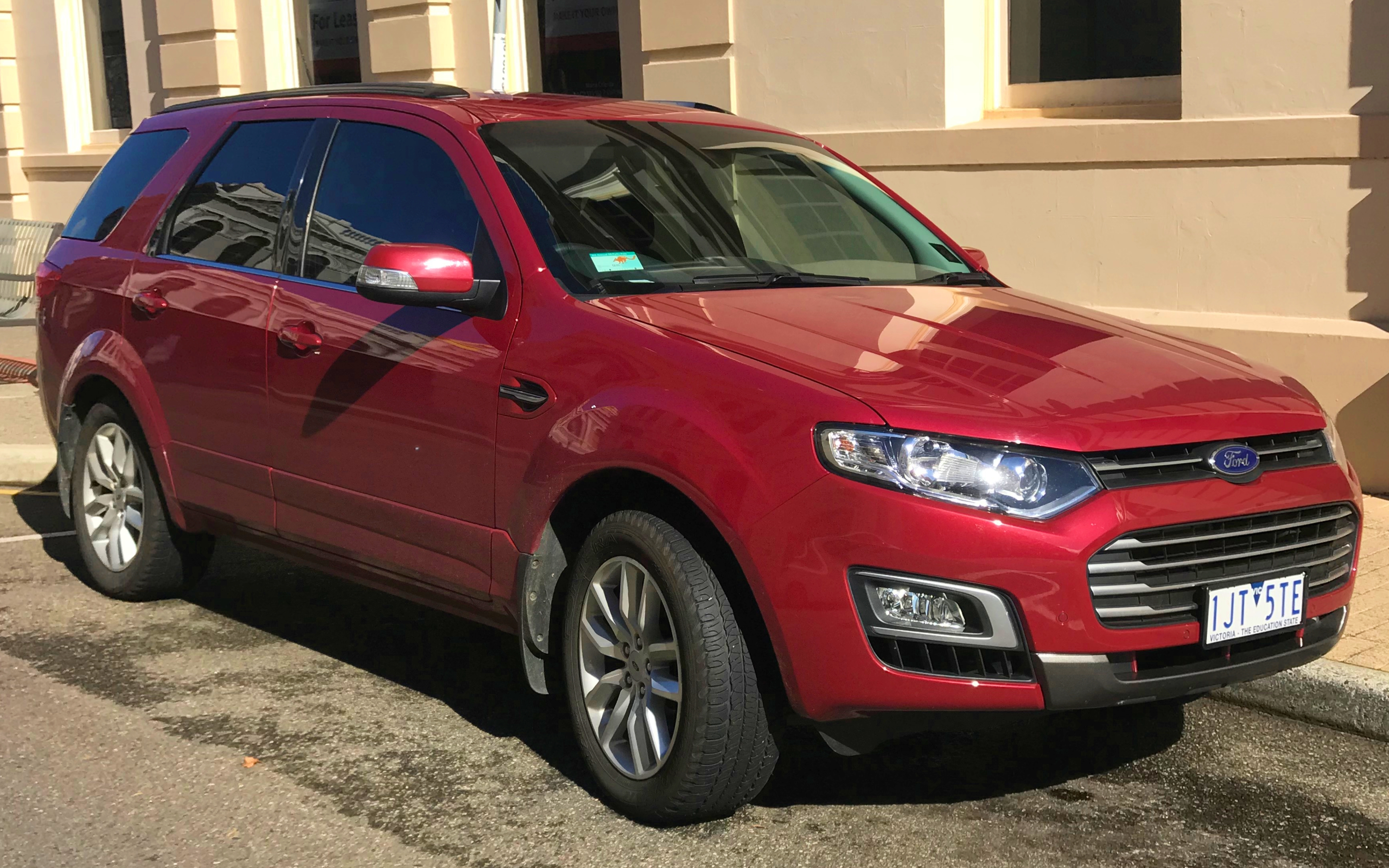 2016 Ford Territory (SZ II) TS AWD wagon. Photographed in Fremantle, Western Australia, Australia.